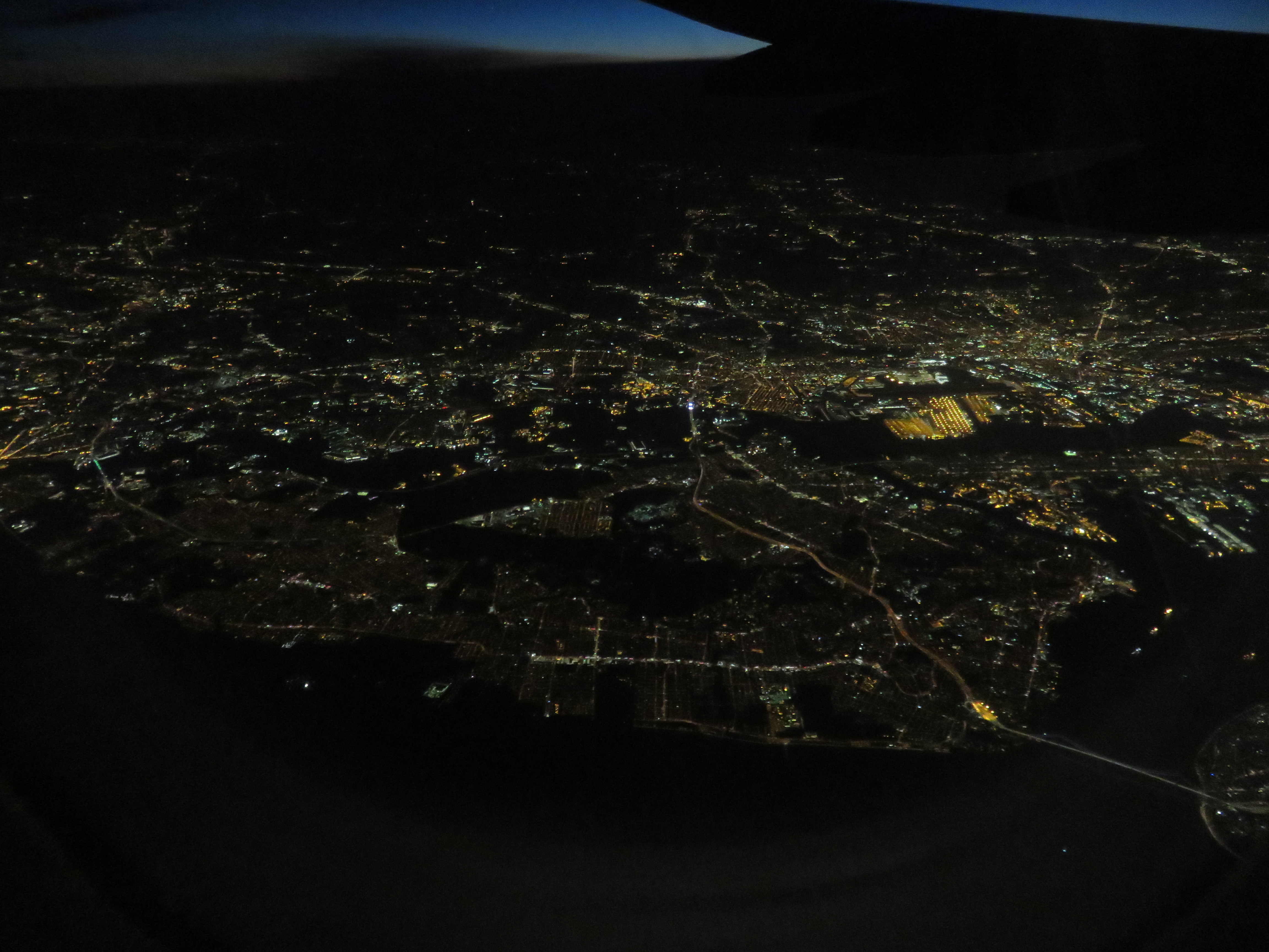 Aerial view of Staten Island at night in 2018